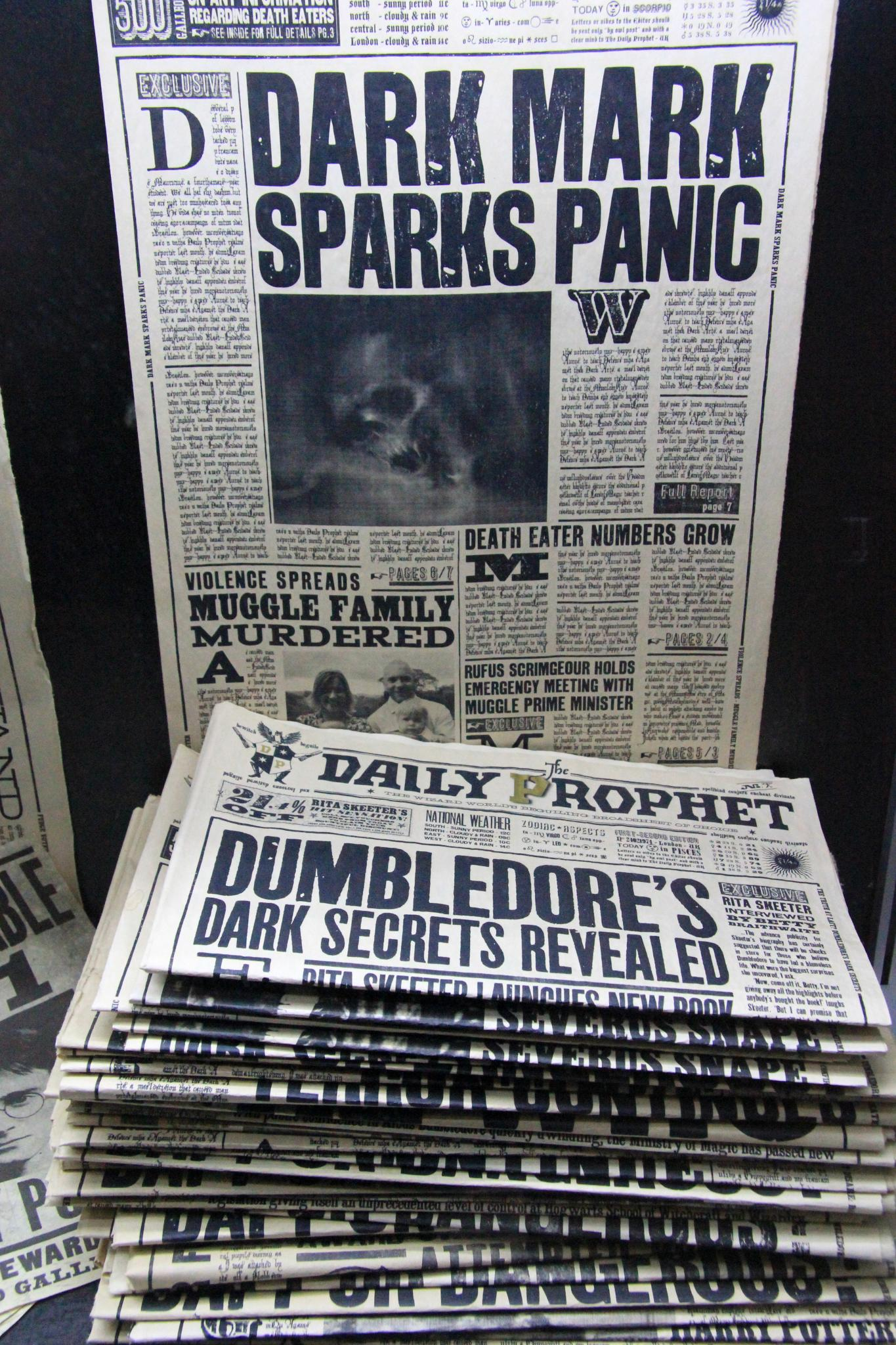 Warner Bros. Studio Tour London: The Making of Harry Potter.